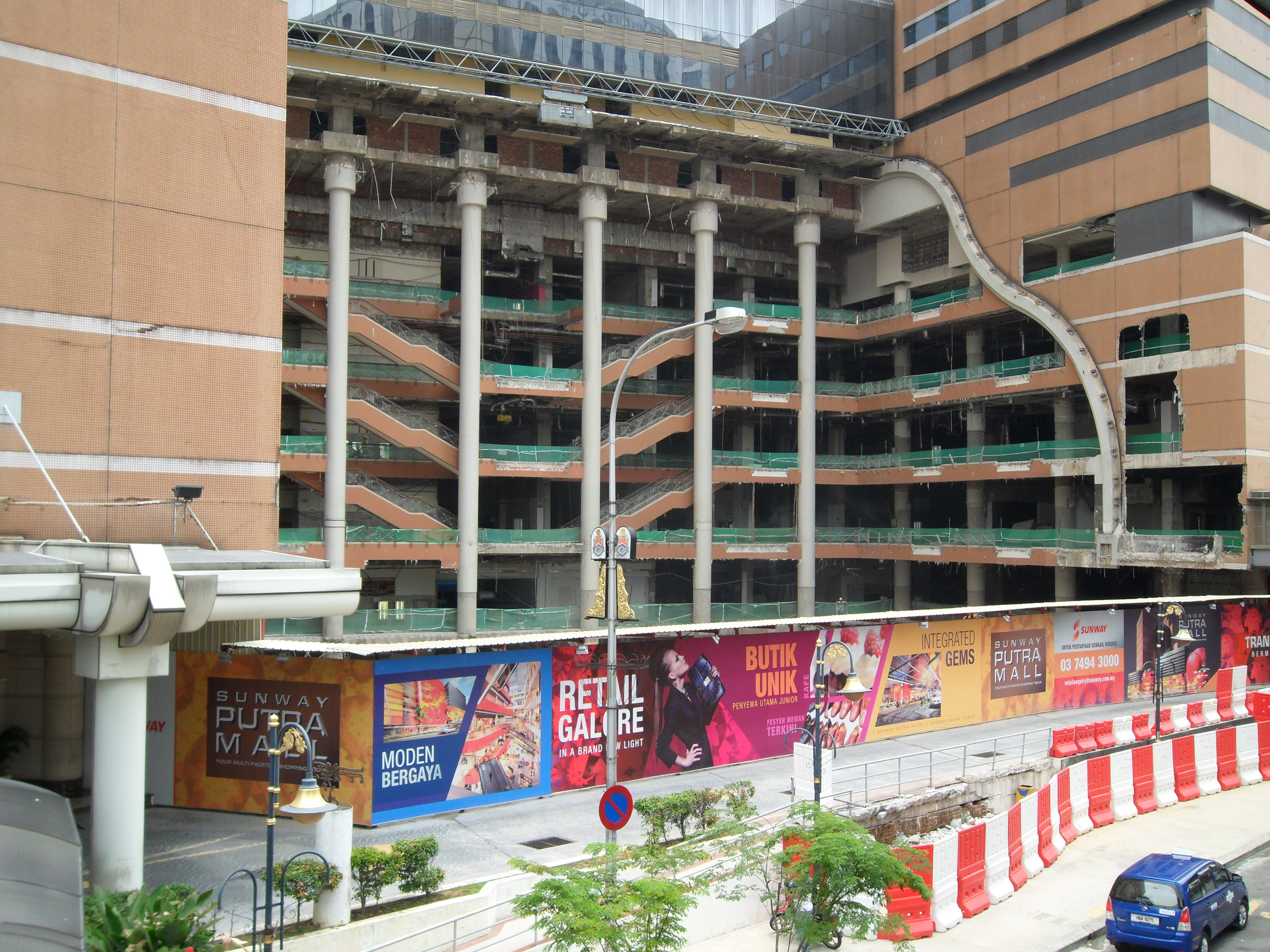 Sunway Putra Mall in Kuala Lumpur undergoing renovation. Taken 13 September 2013.